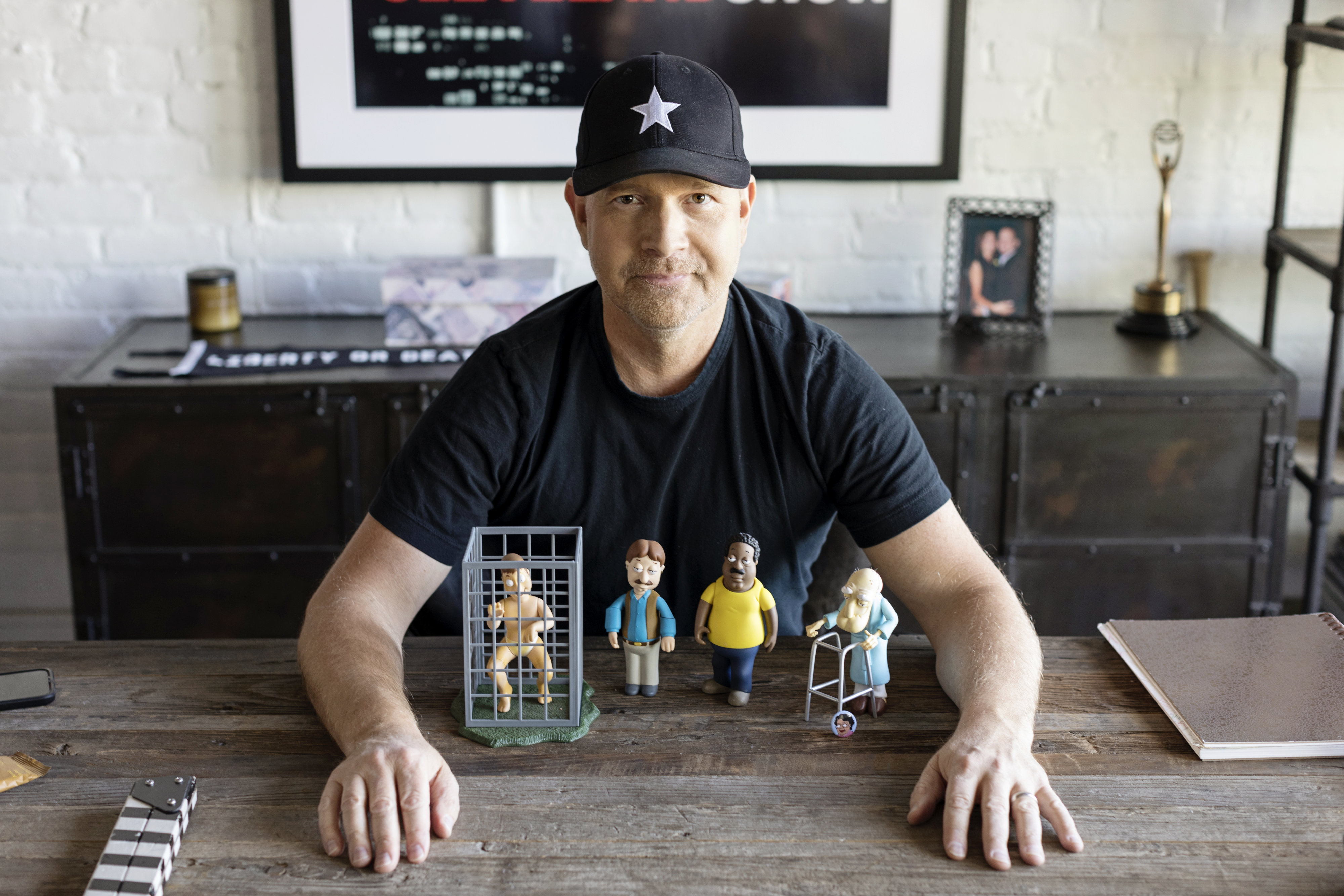 Mike Henry in the studio with his characters.